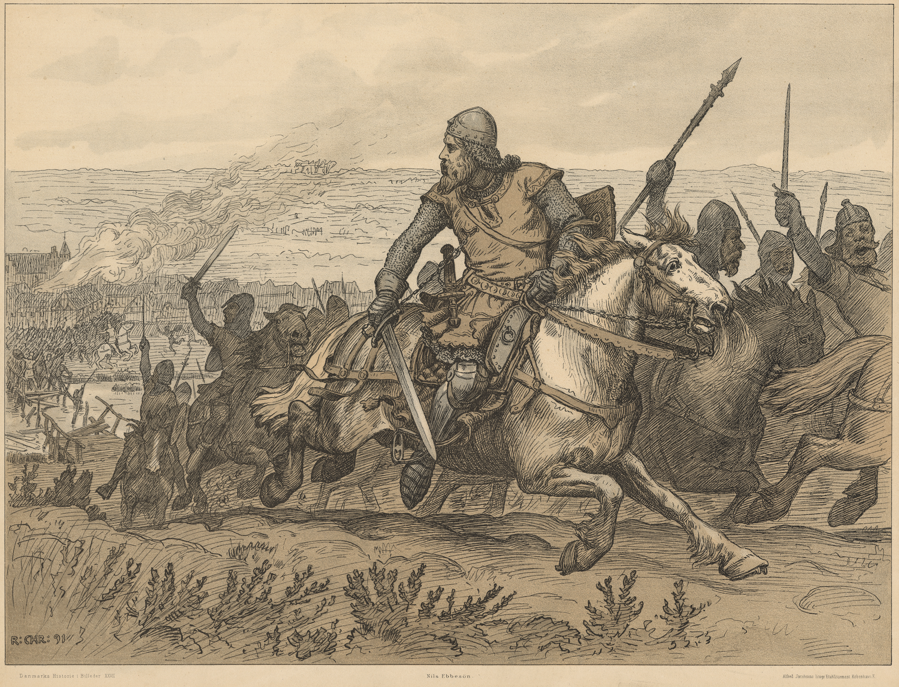 Niels Ebbesen belonged to the gentry of Jutland and turned against the reign of count Gerhard III of Holstein-Rendsburg, killing him in Randers in 1340. The scene shows Niels and his men leaving the town, having destroyed the bridge over the Gudenå. Colour lithograph on paper, glued on cardboard. Signed lower right: R: Chr: 91. Text: Danmarks Historie i Billeder XXVII Nils Ebbesön. Alfred Jacobsens litogr. Etablissement, København K. Published in 1898, documented in V.E. Clausen: Folkelig grafik i Skandinavien, 1973, page 144. Cropped by uploader.